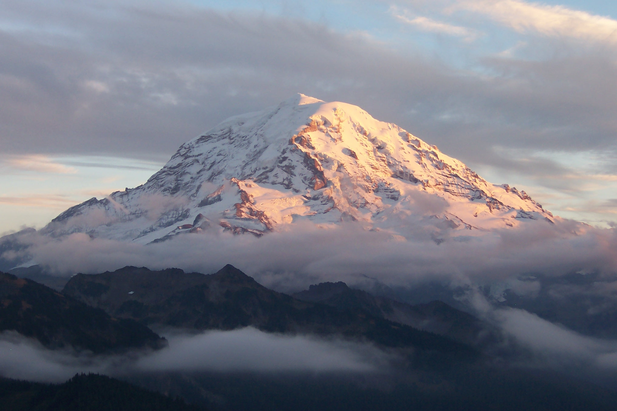 "Mount Rainier towers over all surrounding mountains, lit by the sunset and wreathed in clouds."